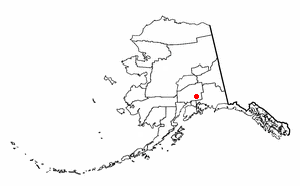 Adapted from Wikipedia's AK borough maps by Seth Ilys.